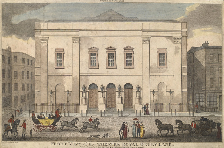 Theatre Royal, Drury Lane, published 25th November 1812 by James Whittle and James R H Laurie, London; hand coloured etching; Victoria & Albert Museum, London, Museum No. S.40-2008